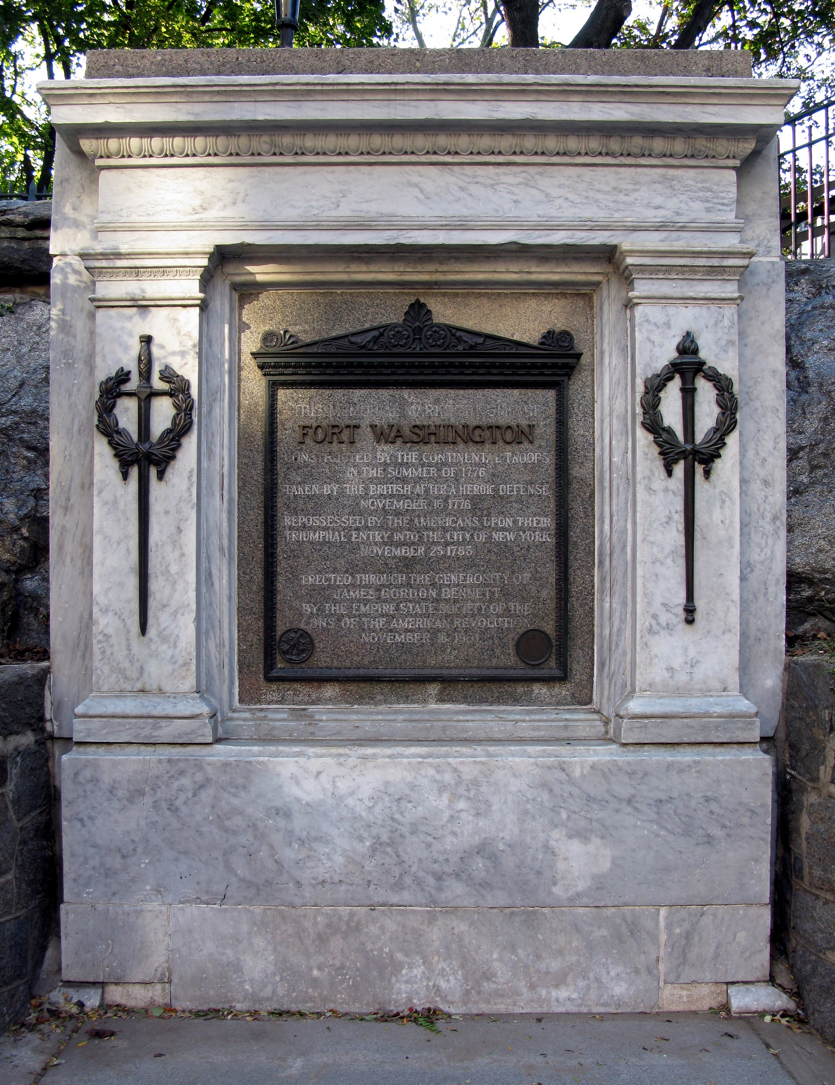 Fort Washington Memorial at the historic Fort Washington Site. This photo is of Wikis Take Manhattan goal code A4, Bennett Park (New York).